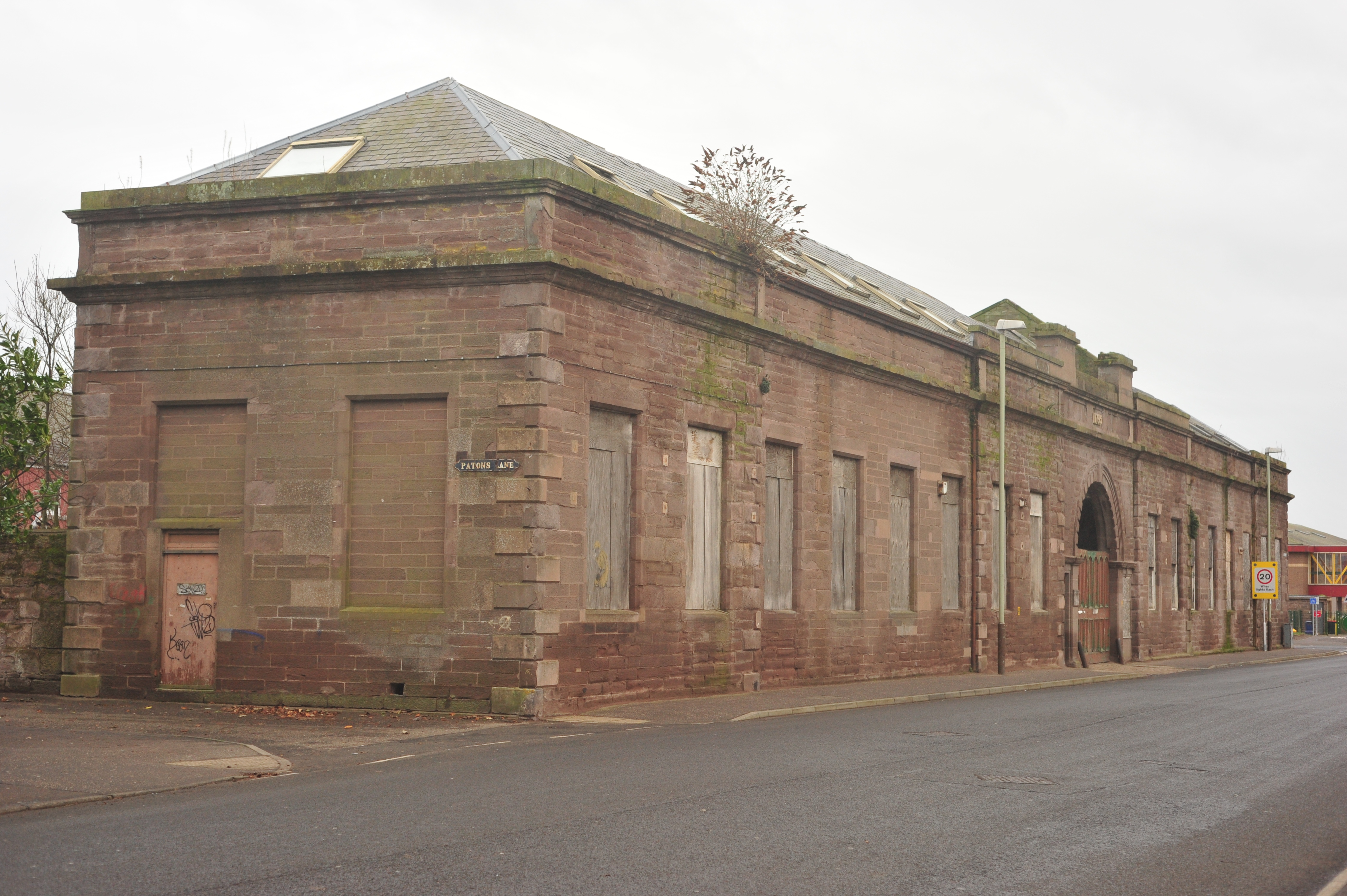 Chapel Works, Montrose - Bond, Marine Avenue and Front Office. Thomson Bros and Company, Douglas Foundry, Dundee, 1866-7.